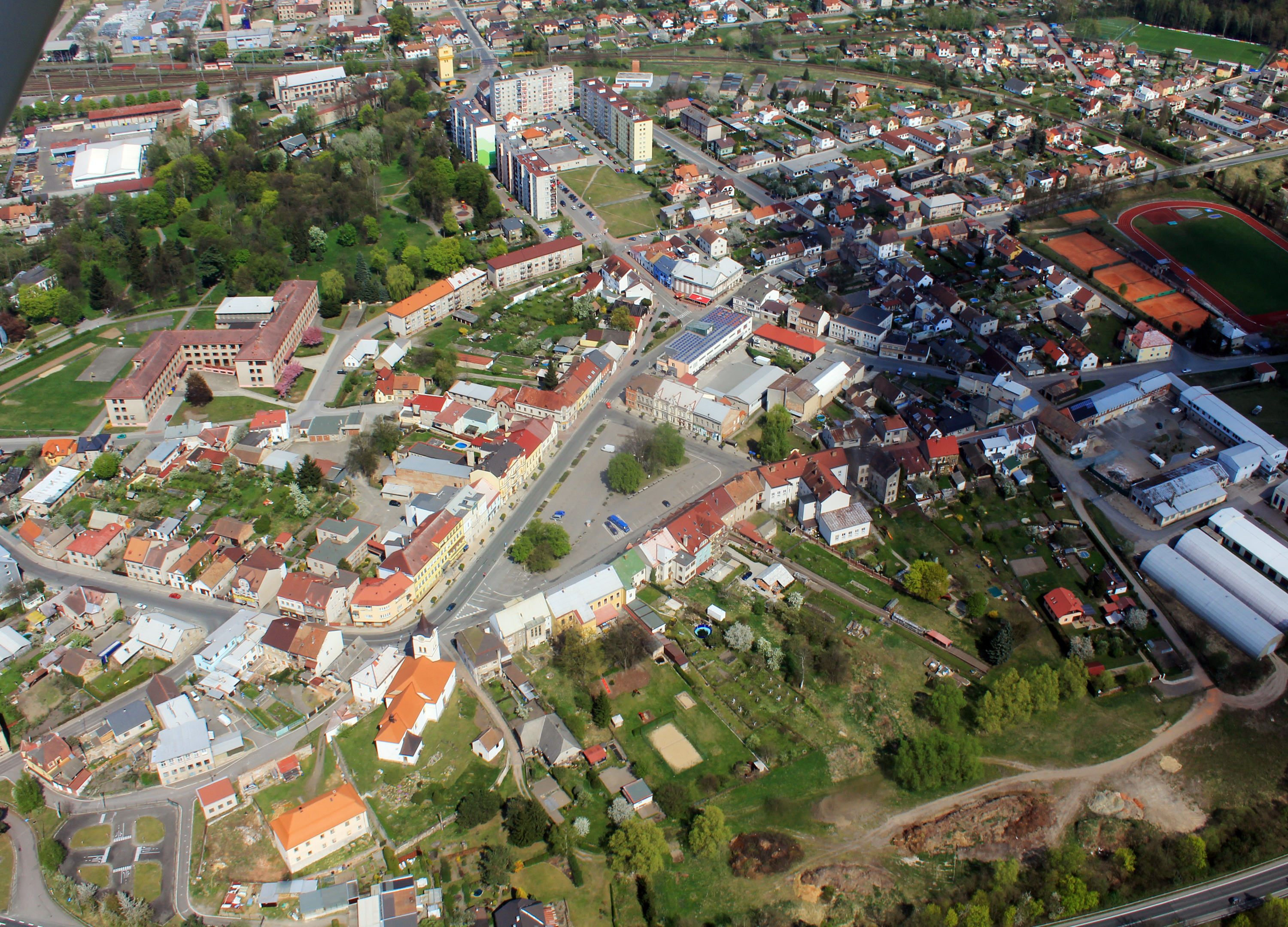 Town Týniště nad Orlicí from air, eastern Bohemia, Czech Republic